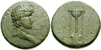 Hadrian. AD 117-138. Mint of Delphi. (Aristotimus, priest of the cult of Antinoüs) Æ 24mm (13.00 g) ΗΡΩС ΑΝΤΙΝΟΟС - bare head right of Antinoüs (favorite of Hadrian, died 130 AD) ΙΕΡΩС ΑΡΙСΟΤΙΜΟС ΑΝΕΘΗΚΕ, Tripod of Delphi